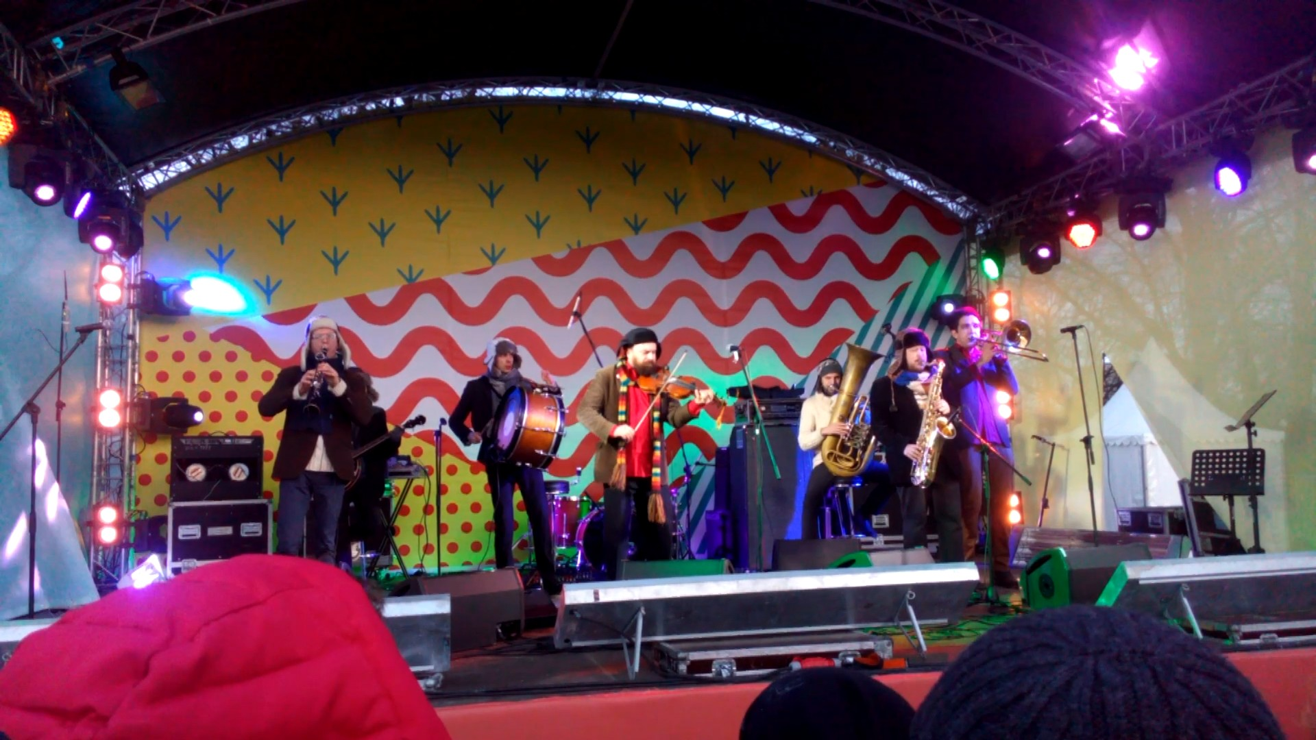 Dobranotch band in Gorky Park, Moscow, Russia